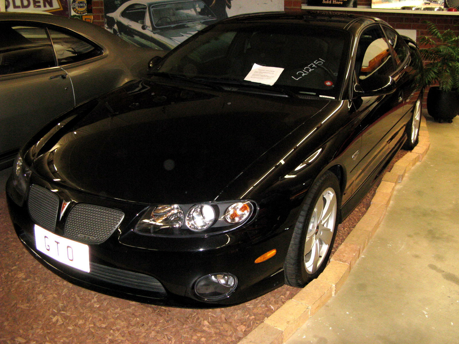 2004 Pontiac GTO coupe, photographed at the National Holden Motor Museum, Echuca, Victoria, Australia.